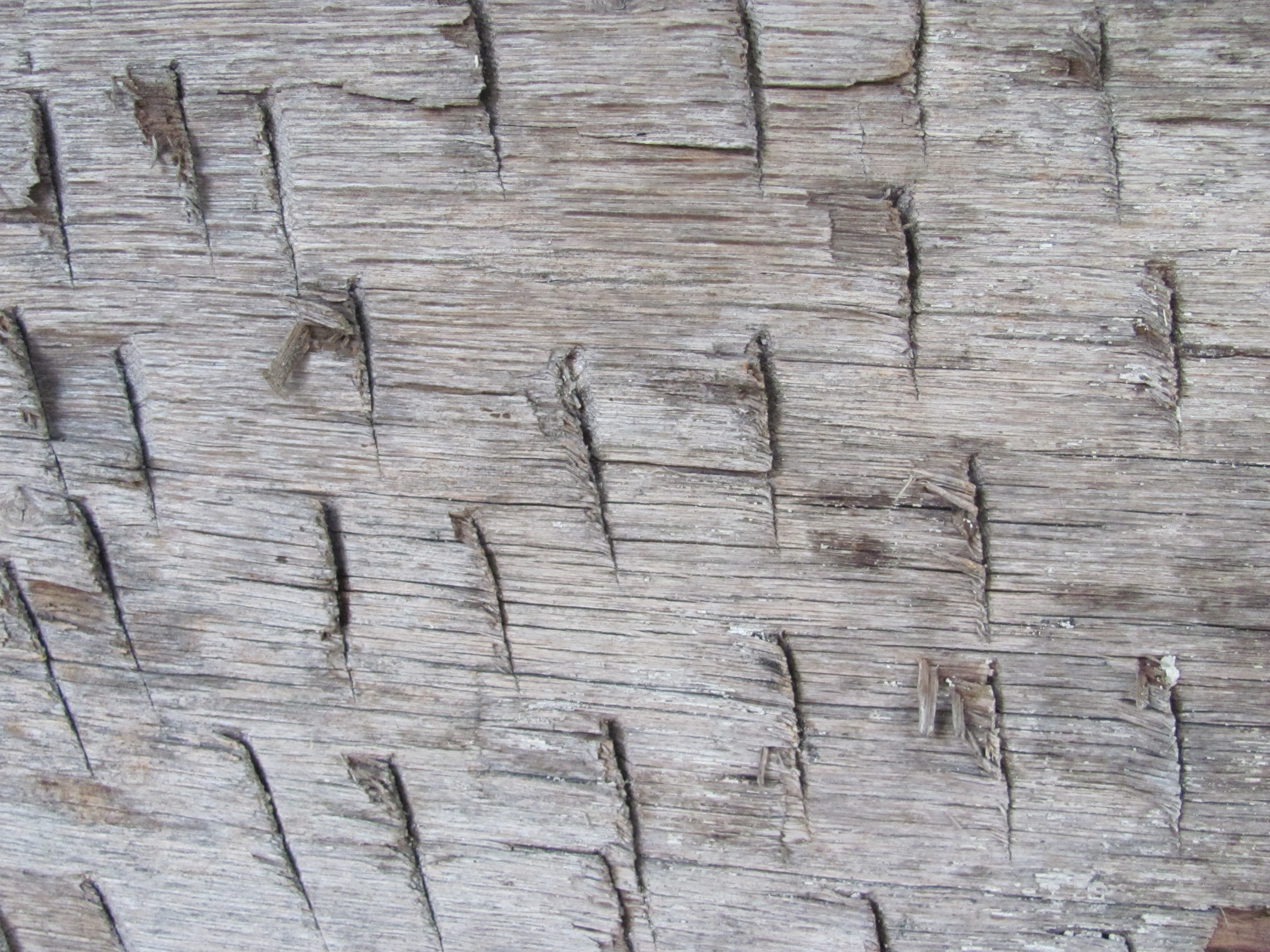 preparation of wooden suport for fresco